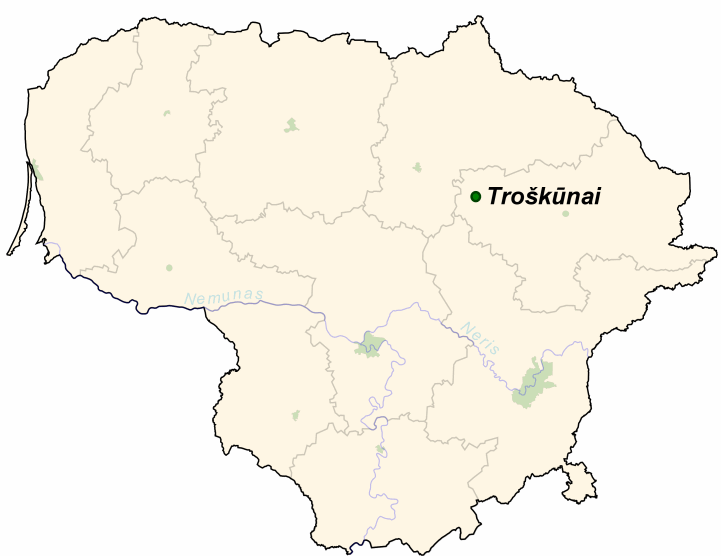 Troškūnai on the map of Lithuania